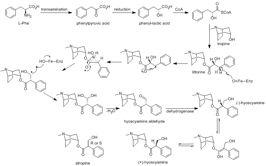 Biosynthesis of atropine starting from L-Phenylalanine